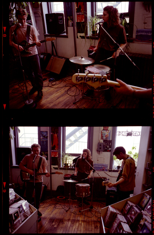 two frames scanned from still photographic film of an early version of the indie band Low Other information I still possess the negative (or slide film).